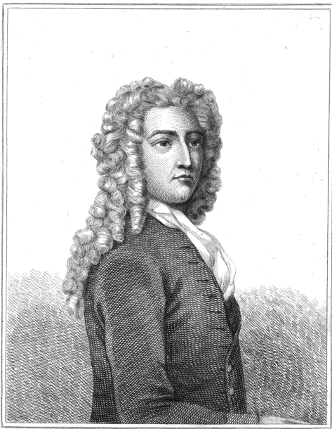 Portrait of Christopher Layer (1683–1723), English Jacobite conspirator. Caption "At the Place of Execution".